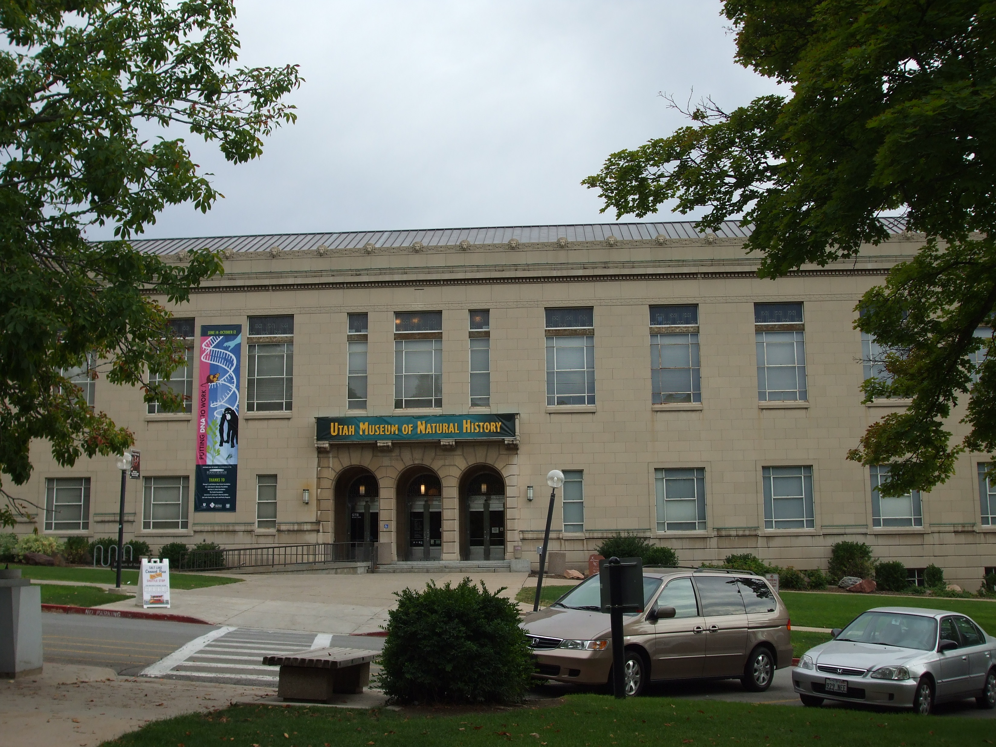 The George Thomas Building, shown here photographed in 2008 when it still was home of the Utah Museum of Natural History, at the University of Utah. In 2011 the Museum moved to a completely new building. The move also resulted in a change of name to the "Natural History Museum of Utah".